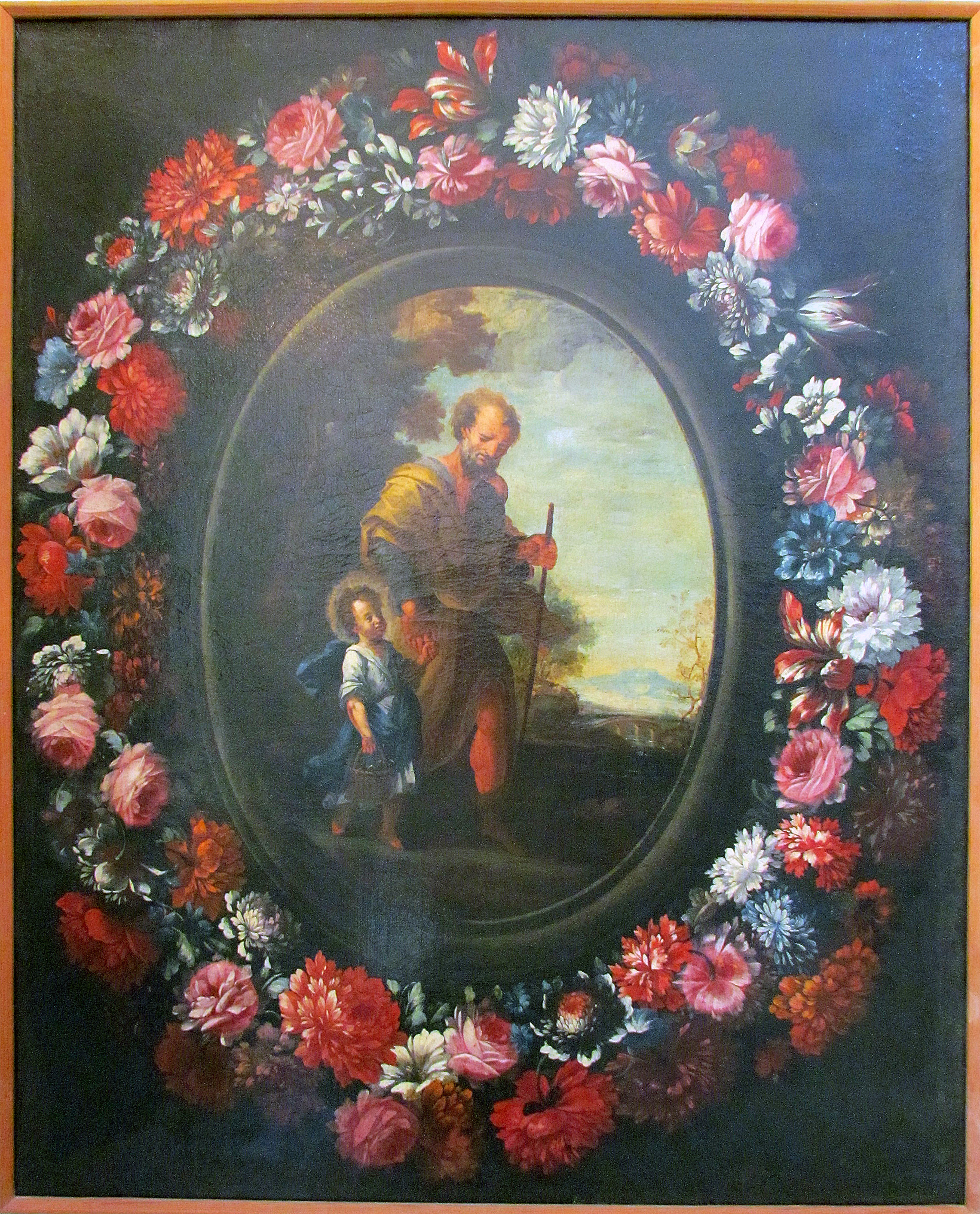 St. Joseph with Christ child by Giovan Domenico Osnago